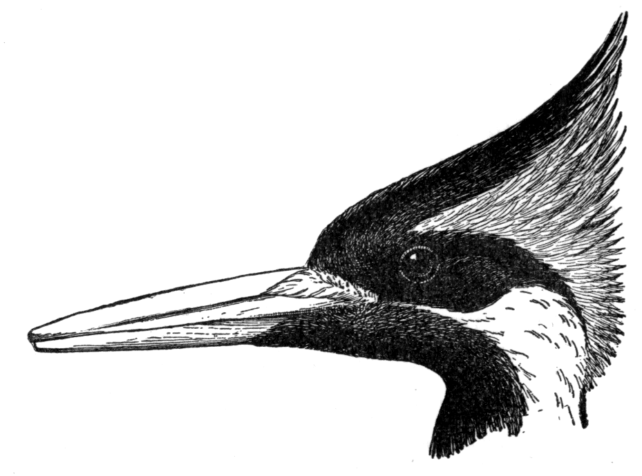 Ivory-billed Woodpecker, Campephilus principalis, male, etching or similar medium. Note: Iris is shown as dark in illustration—this is likely an error—other illustrations from living birds show it is nearly white.